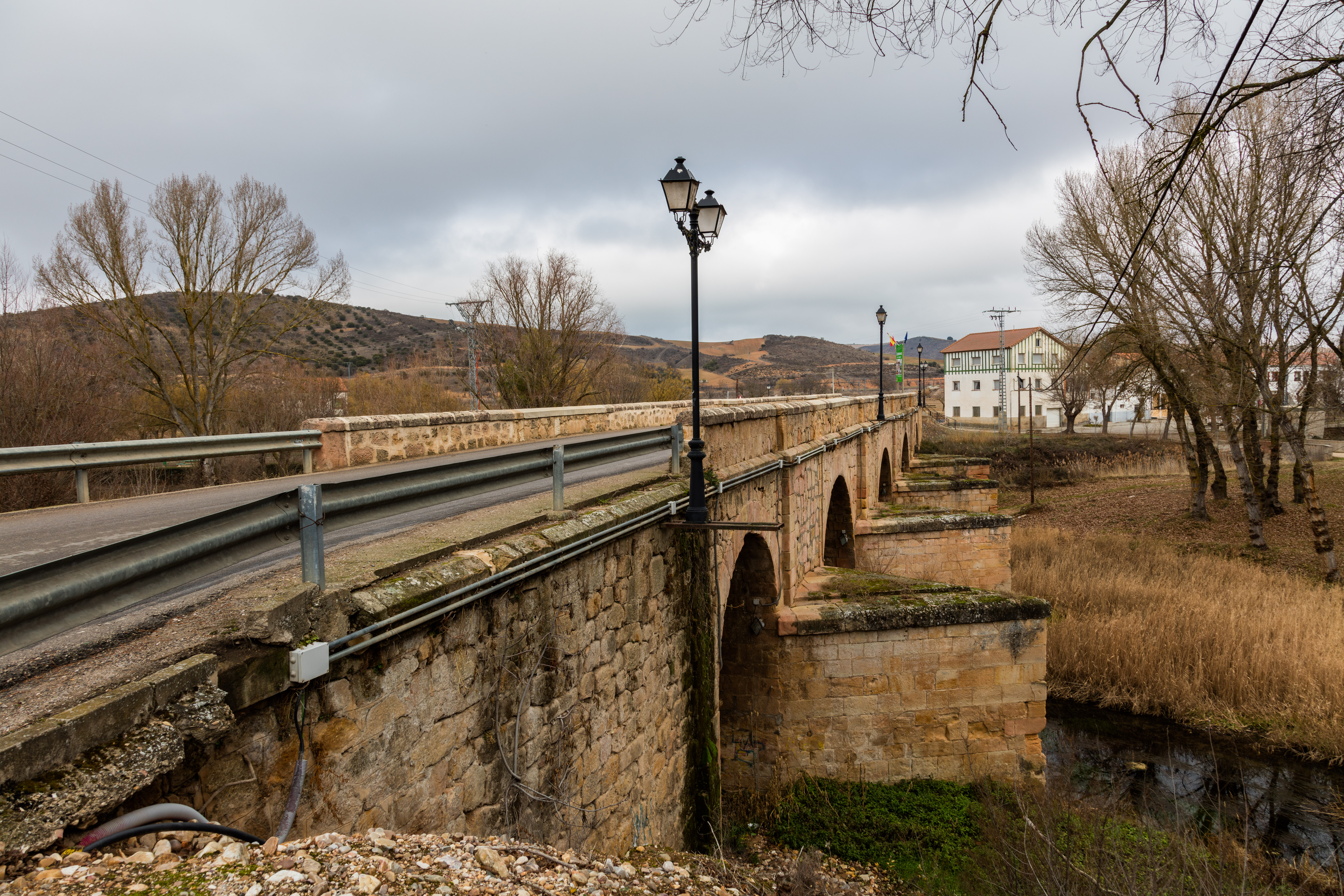 Stone bridge, Espinosa de Henares, Guadalajara, Spain